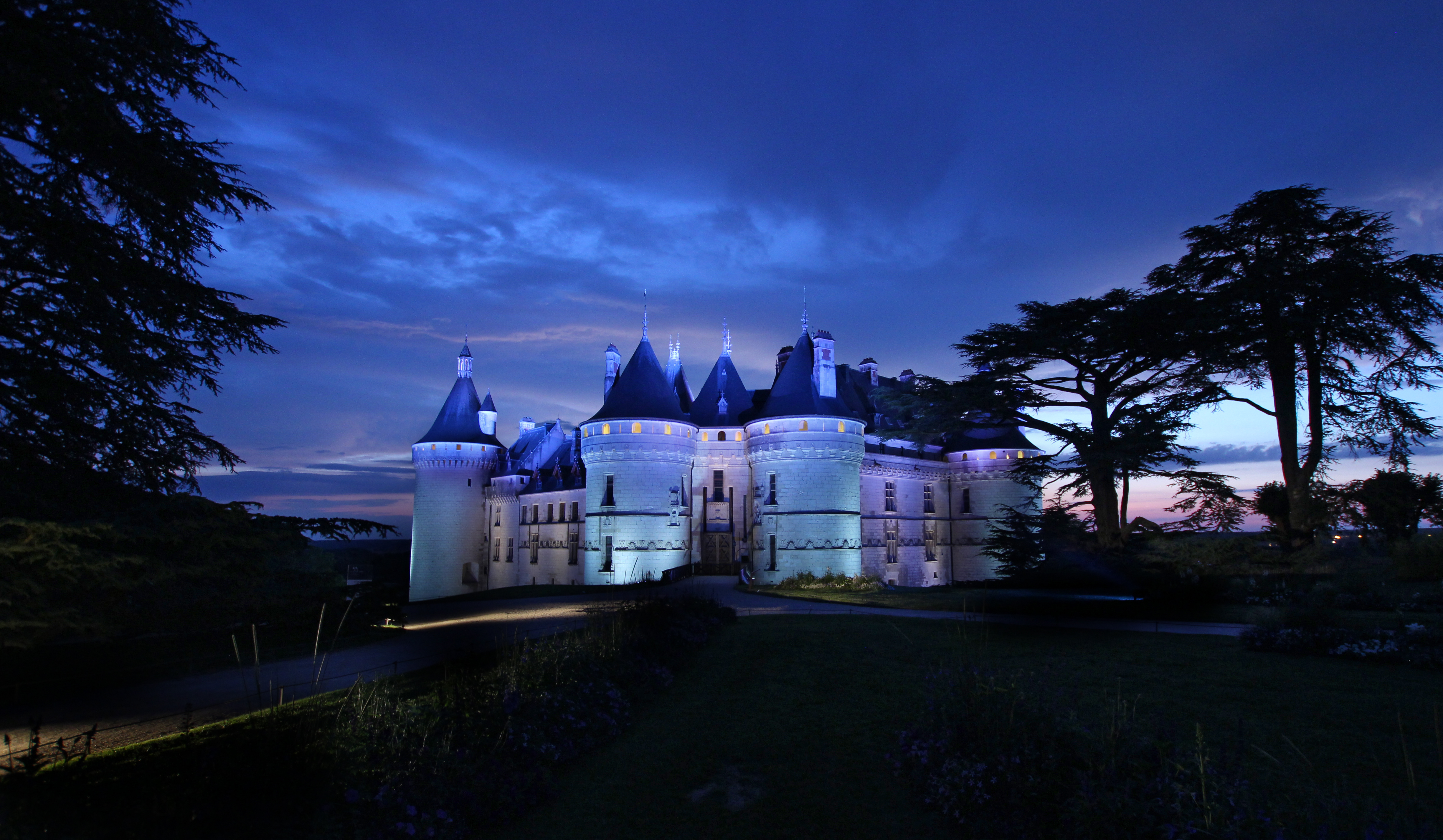 Architectural lighting - Chaumont sur Loire